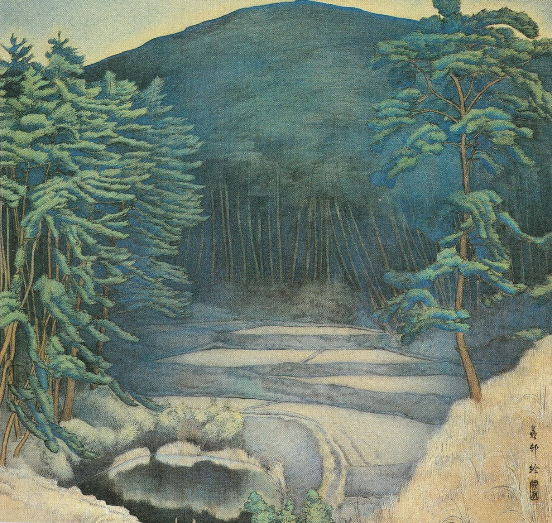 Maeda Tekison: Landscape painting